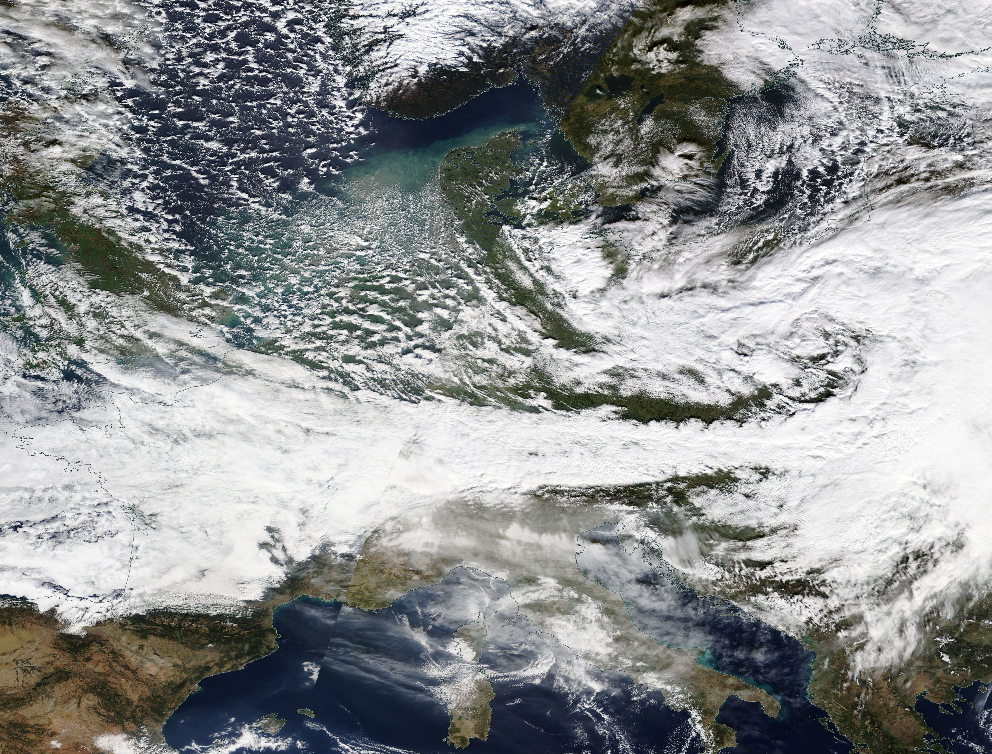 MODIS Terra Image of Europe showing Storm Herwart (FU Berlin naming) centered over Belorussia on 29 October 2017